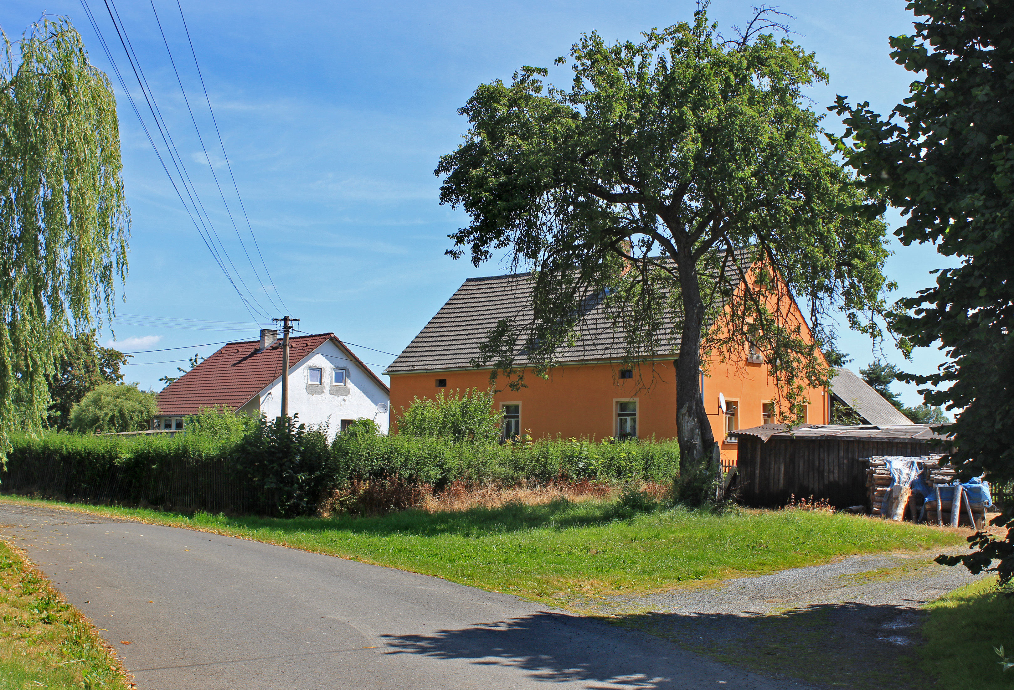 East part of Starý Kramolín, part of Mutěnín, Czech Republic.